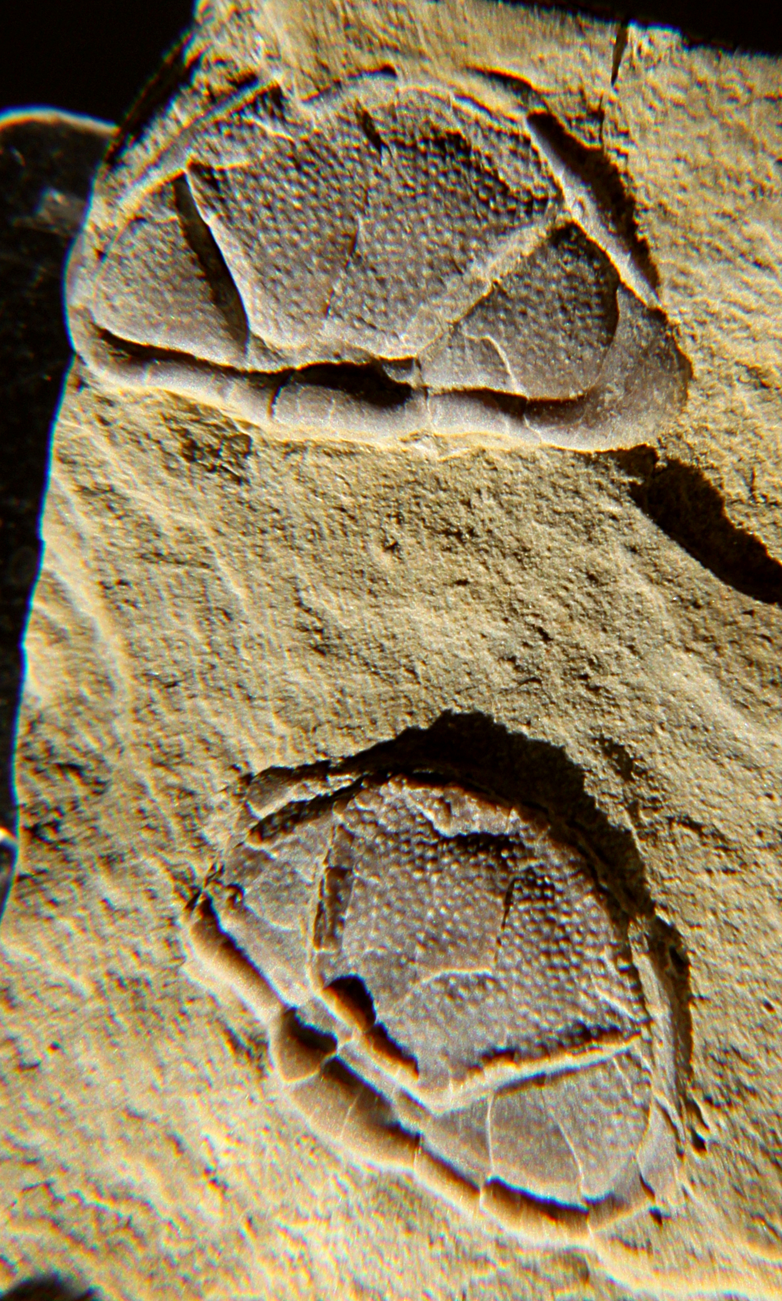 Two cephalons of the trilobite Trimerocephalus interruptus, order Phacopida, family Phacopidae, 8mm along midline, collected near Kielce, Poland, from the late Upper Devonian (Famennian).